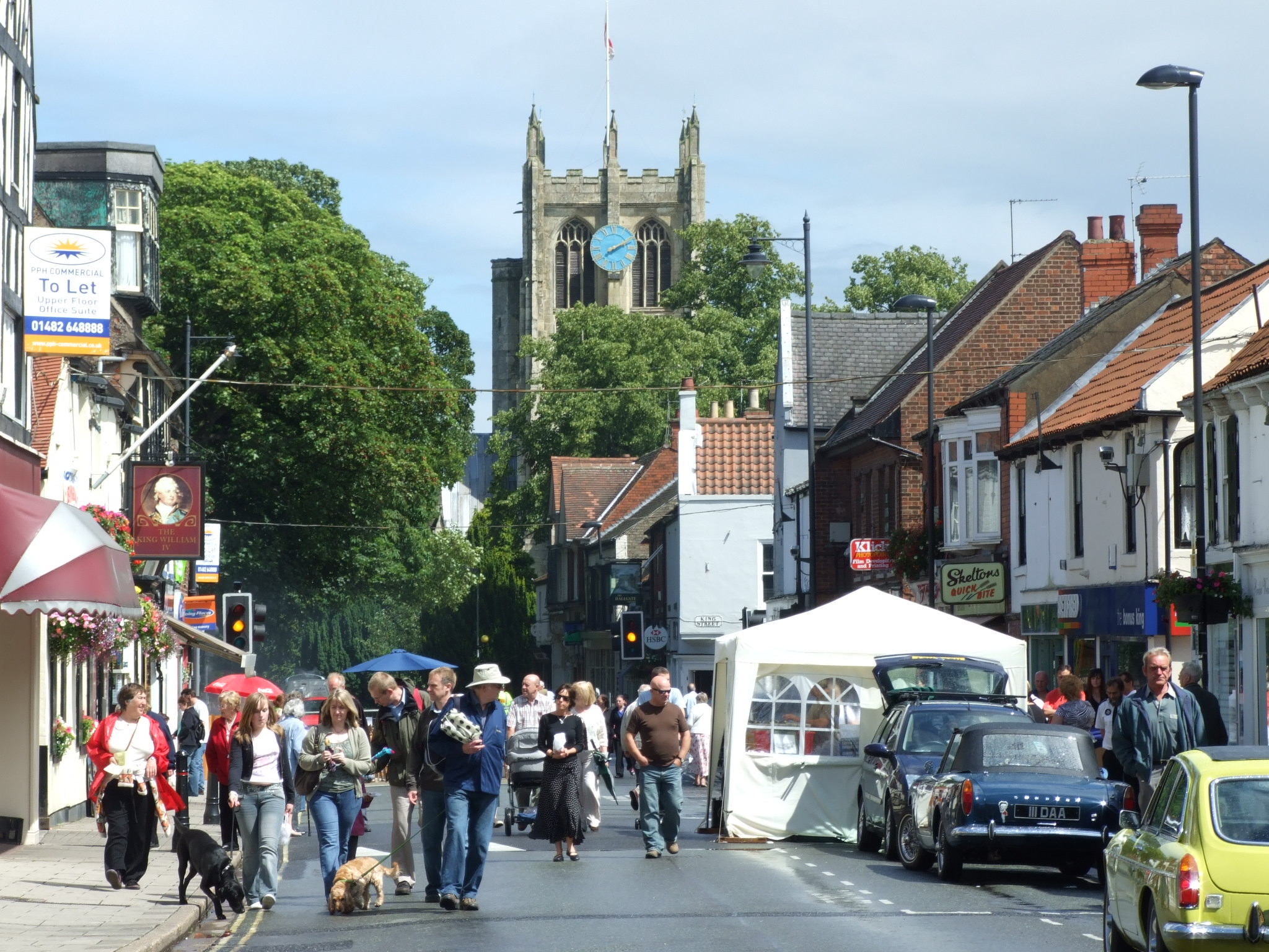 View of Hallgate, Cottingham, East Riding of Yorkshire, England, on "Cottingham Day" 2007.